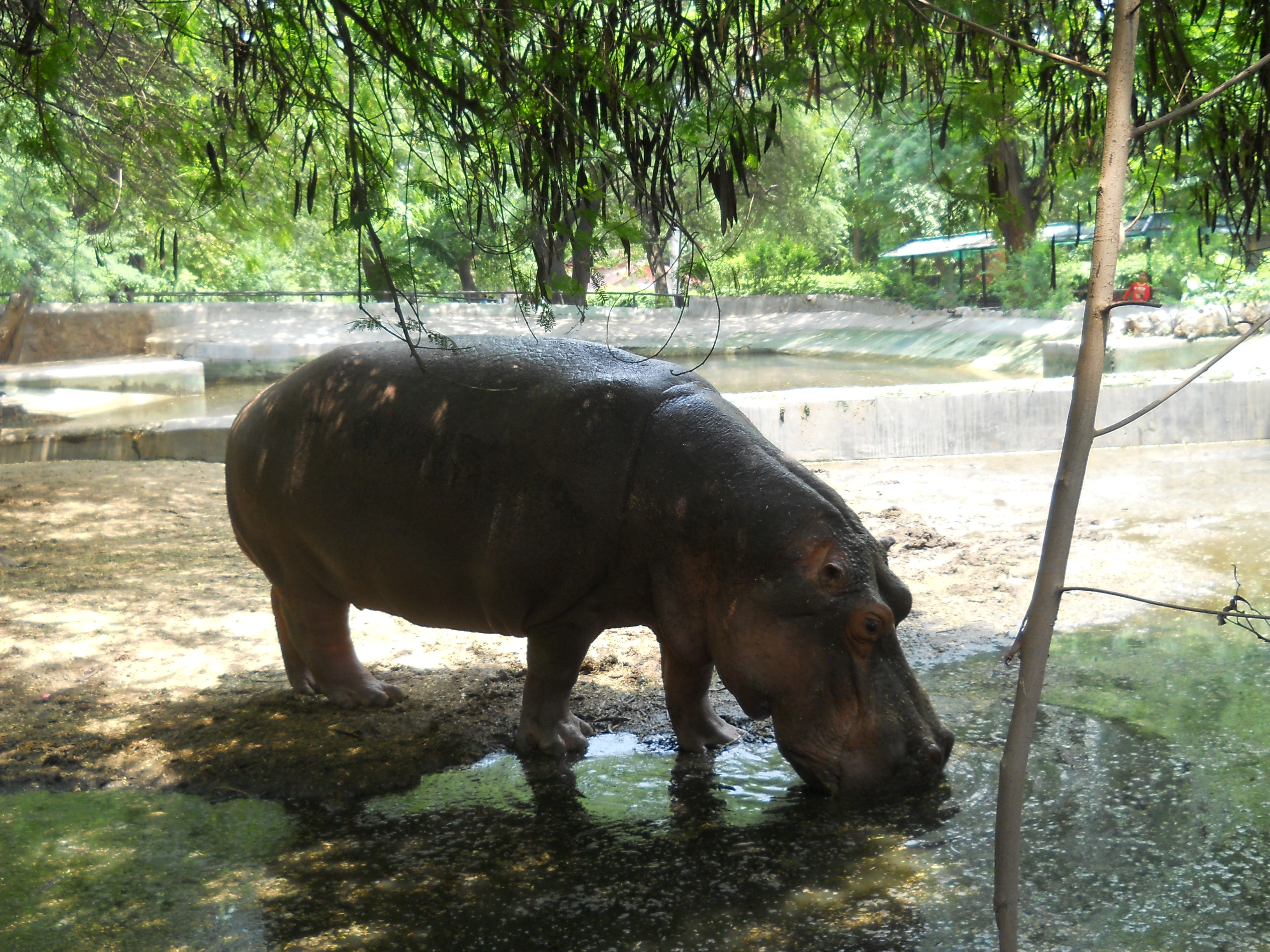 this image was taken at national zoological park NEW DELHI..